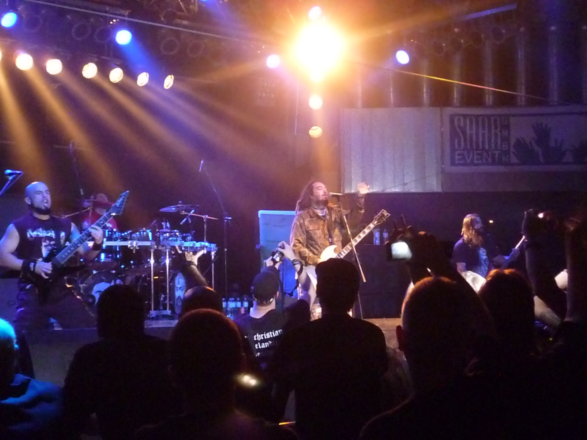 Cavalera Conspiracy live in Saarbrücken (Garage)